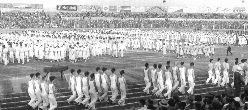 2nd Maccabiah opening ceremony.